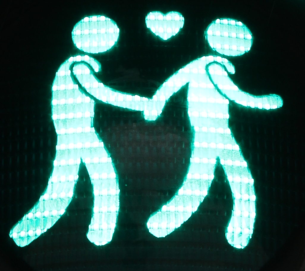 "Ampelpärchen" in Vienna, Austria